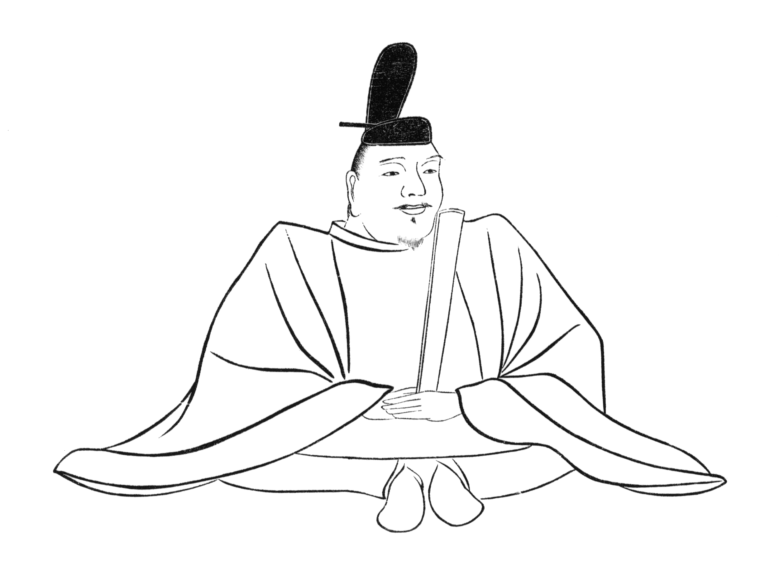 Wooden statue of Ogasawara Sadamune